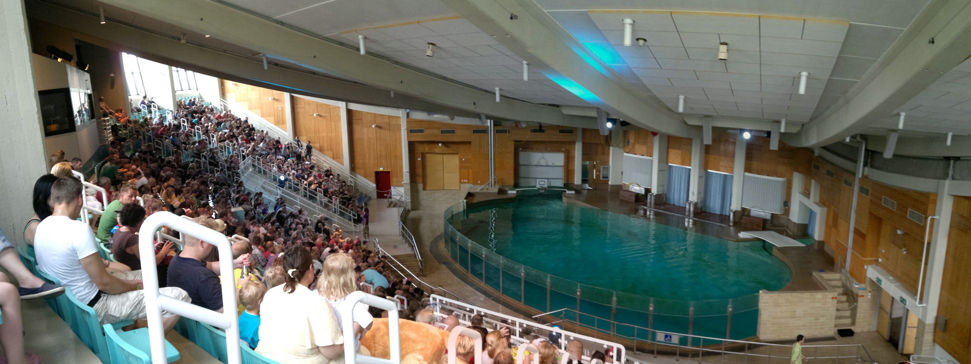 Dolphinarium at Särkänniemi amusement park in Tampere, Finland.